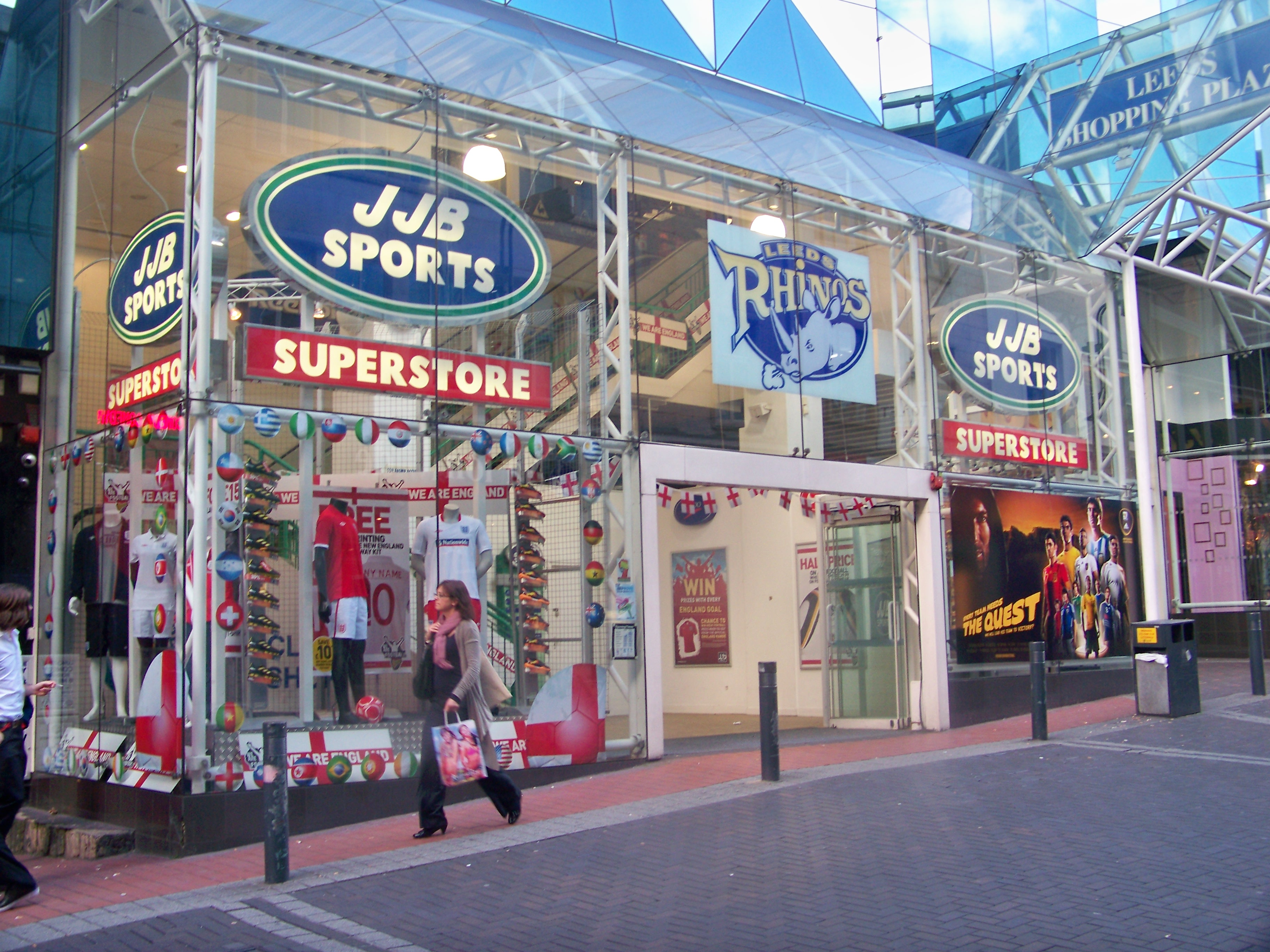 JJB Sports on Albion Street in Leeds, West Yorkshire. This forms part of the Leeds Shopping Plaza. This was once the larger of two branches in the City Centre, the smaller one being on The Headrow, when JJB rationalised their branches they closed the one on The Headrow and it became 'Computer Exchange'. A Leeds Rhinos crest is displayed above the entrance. Taken on the evening of Thursday the 27th of May 2010.